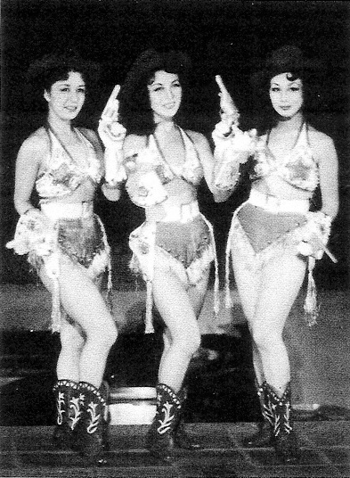 "Three pearls" Kusabue Mitsuko, Fukakusa Shoko, Awaji Keiko